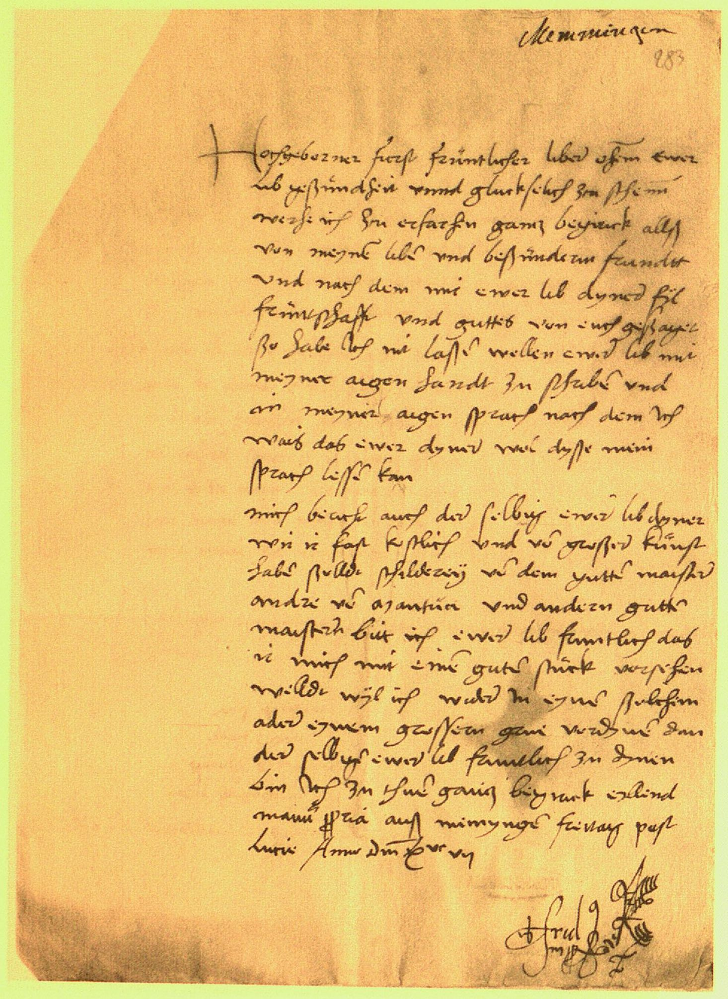 An autograph letter of Frederick III to Francesco II Gonzaga, Marquess of Mantua. Mantua, Archivio di Stato, Archivio Gonzaga, busta 514, c. 283.